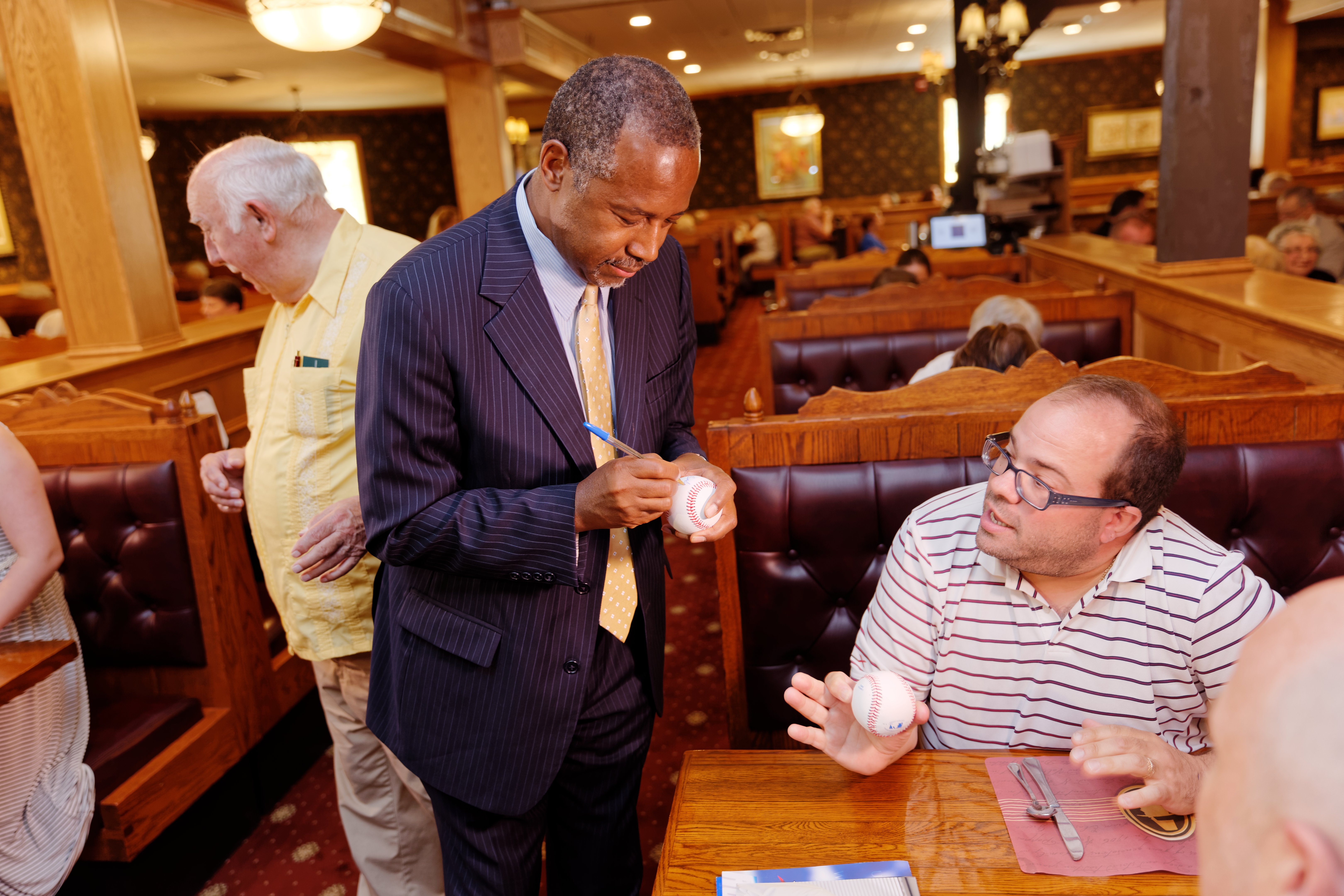 Benjamin Solomon "Ben" Carson, Sr. (born September 18, 1951) is an American author, political pundit, and retired Johns Hopkins neurosurgeon. On May 4, 2015, Carson announced he was running for the Republican nomination in the 2016 Presidential election at a rally in Detroit, his hometown. Carson was the first surgeon to successfully separate conjoined twins joined at the head. In 2008, he was awarded the Presidential Medal of Freedom by President George W. Bush. After delivering a widely publicized speech at the 2013 National Prayer Breakfast, he became a popular conservative figure in political media for his views on social and political issues. Ben Carson Visits New Hampshire on Thursday, August 13, 2015 Thursday, August 13, 2015 11:40 a.m. - 12:20 p.m. EDT Walk Through Puritan Backroom Restaurant 245 Hooksett Road Manchester, NH 1:10 p.m. - 2:35 p.m. EDT Hooksett Town Hall Meeting American Legion Post 37 5 Riverside Drive Hooksett, NH 5:30 p.m. - 6 p.m. EDT Londonderry Old Home Day 14th Annual Kidz Night Londonderry Town Common Londonderry, NH 7:15 p.m. - 8:45 p.m. EDT Windham Town Hall Meeting Castleton Banquet and Conference Center 92 Indian Rock Road Windham, NH